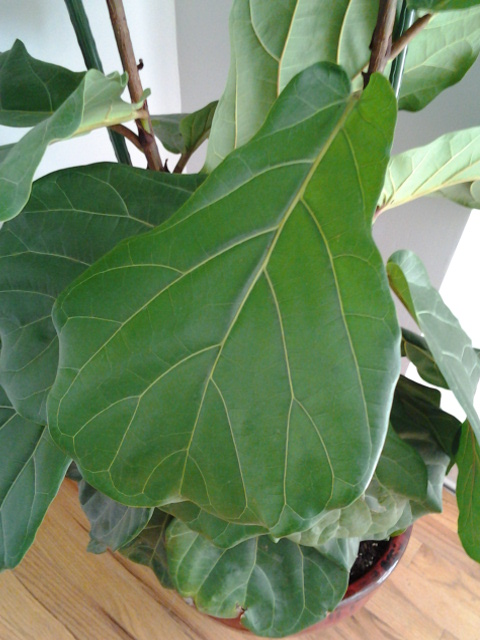 Leaf of Fiddle-leaf fig